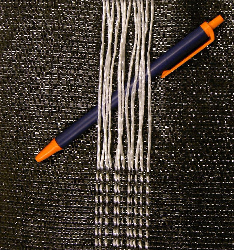 Nicolon Geolon PP60 L, Polypropylene O90 220 micron, permeability 0.005 m/s, tensile strength 60 kN/m;through punch strength 7 kN. Purpose of the loops is to connect them to faggots without damaging the fabric